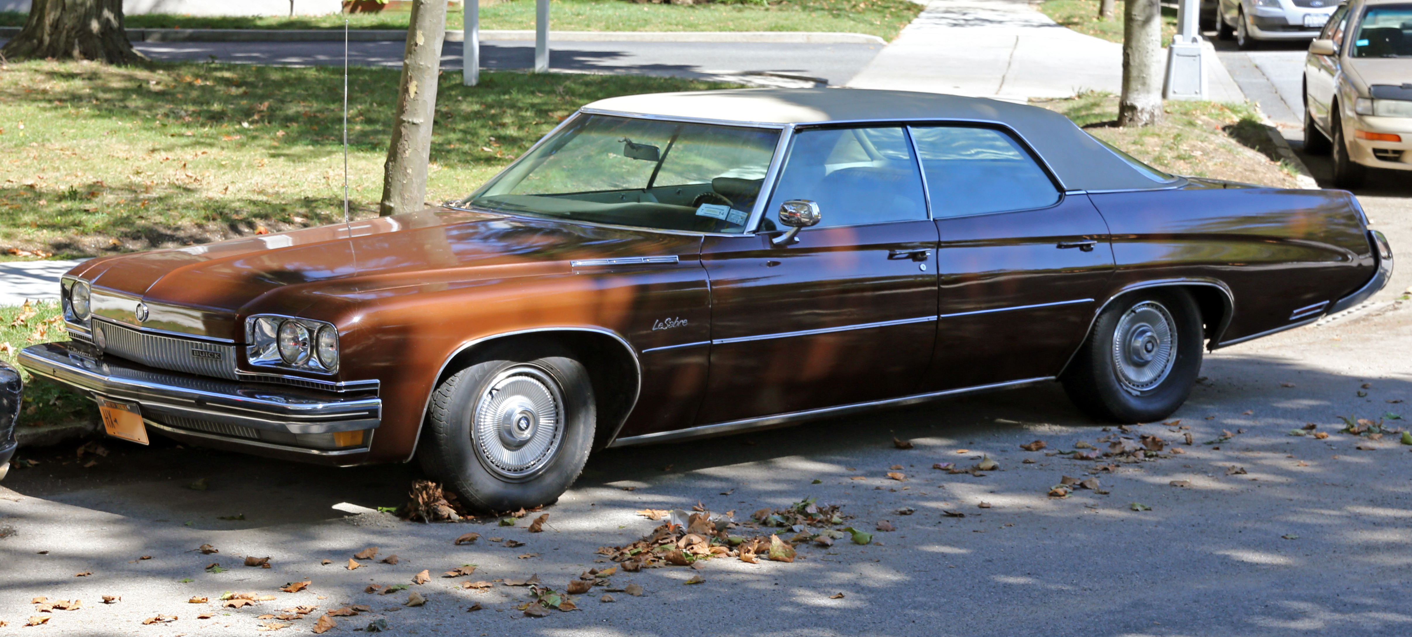 1973 Buick LeSabre 4-door hardtop sedan. This has the optional 175hp 350ci 4-barrel V8 and was assembled in Wilmington, Delaware. 13,413 of these were built (all engine options).